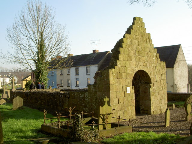 Abbey of St. Peter + Paul, Clones. There has been an abbey on this site since the 6th century, when St. Tighernach founded the first abbey. This abbey architecturally dates from the 11th-12th centuries. The ruins are a National Monument.